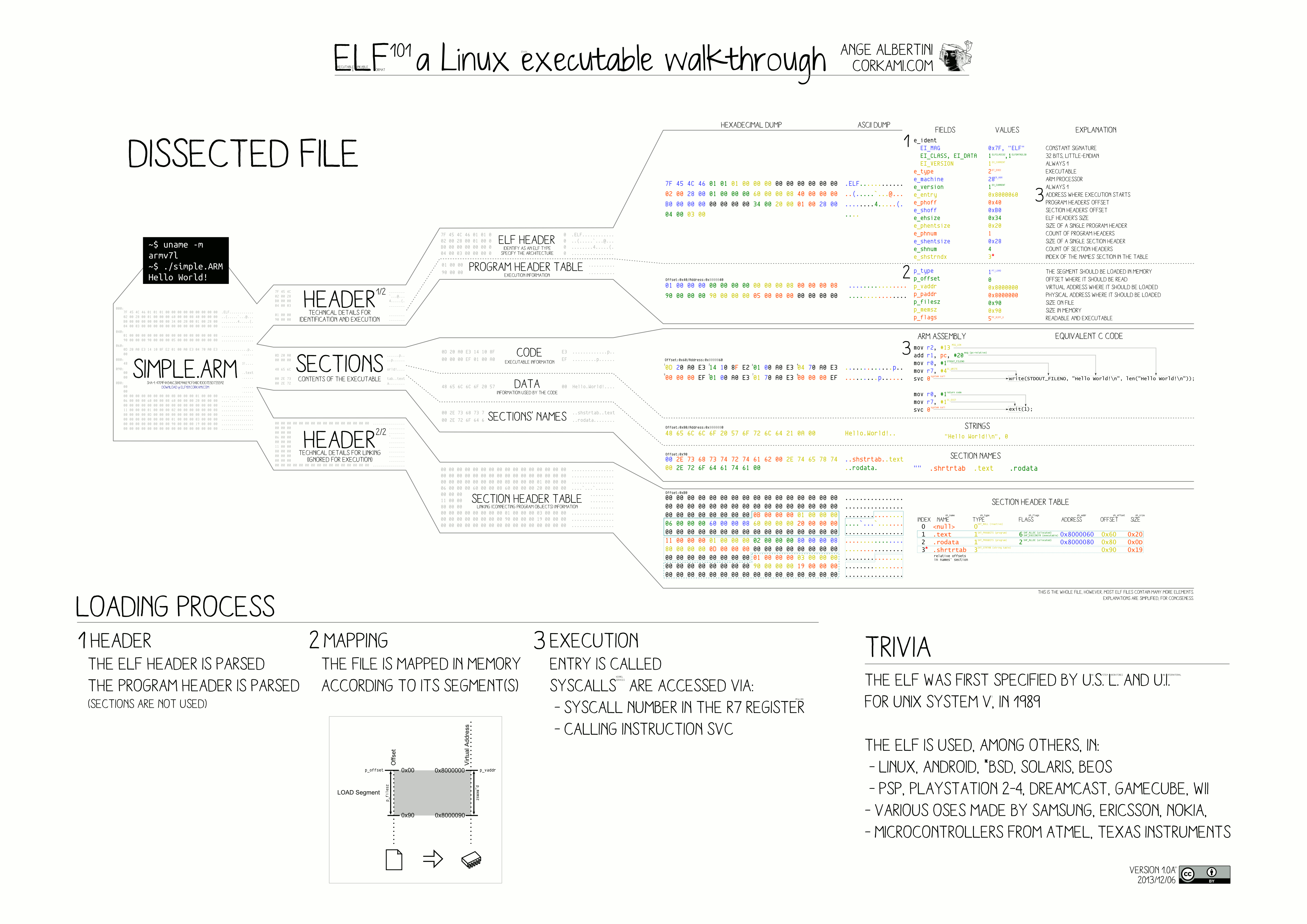 ELF Executable and Linkable Format diagram by Ange Albertini. Locally converted from SVG which had a non-Wikimedia accepted link to PNG with ImageMagick.